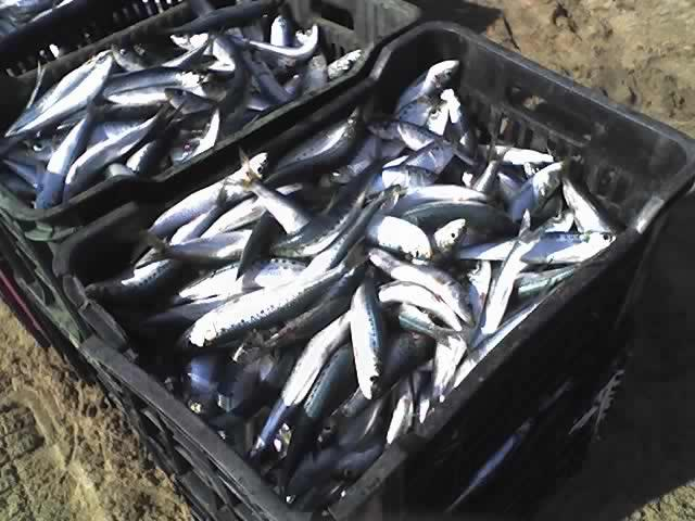 Sardines at Amanzimtoti in June 2007